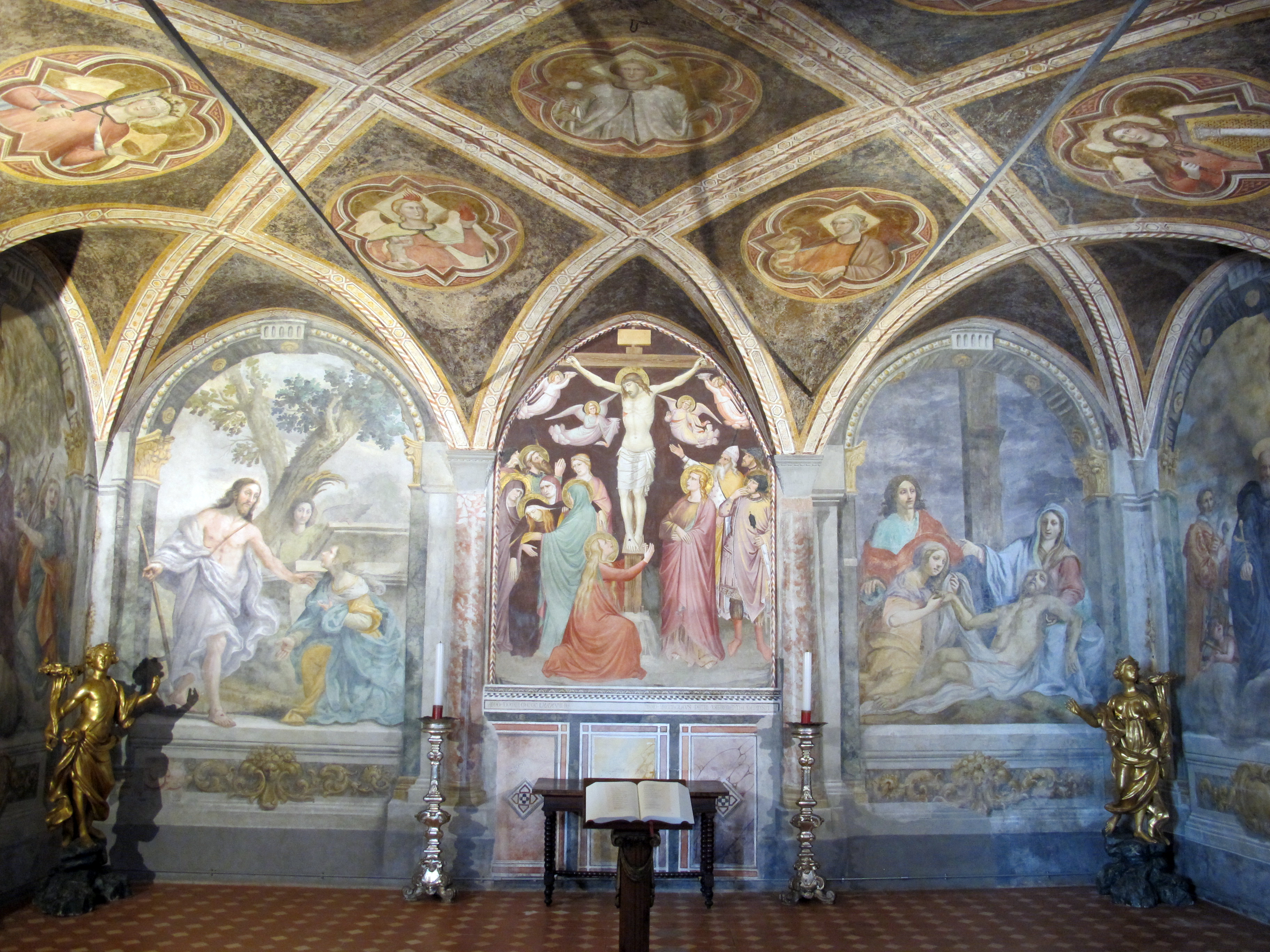 Chapter Room of Santa Felicita (Florence)